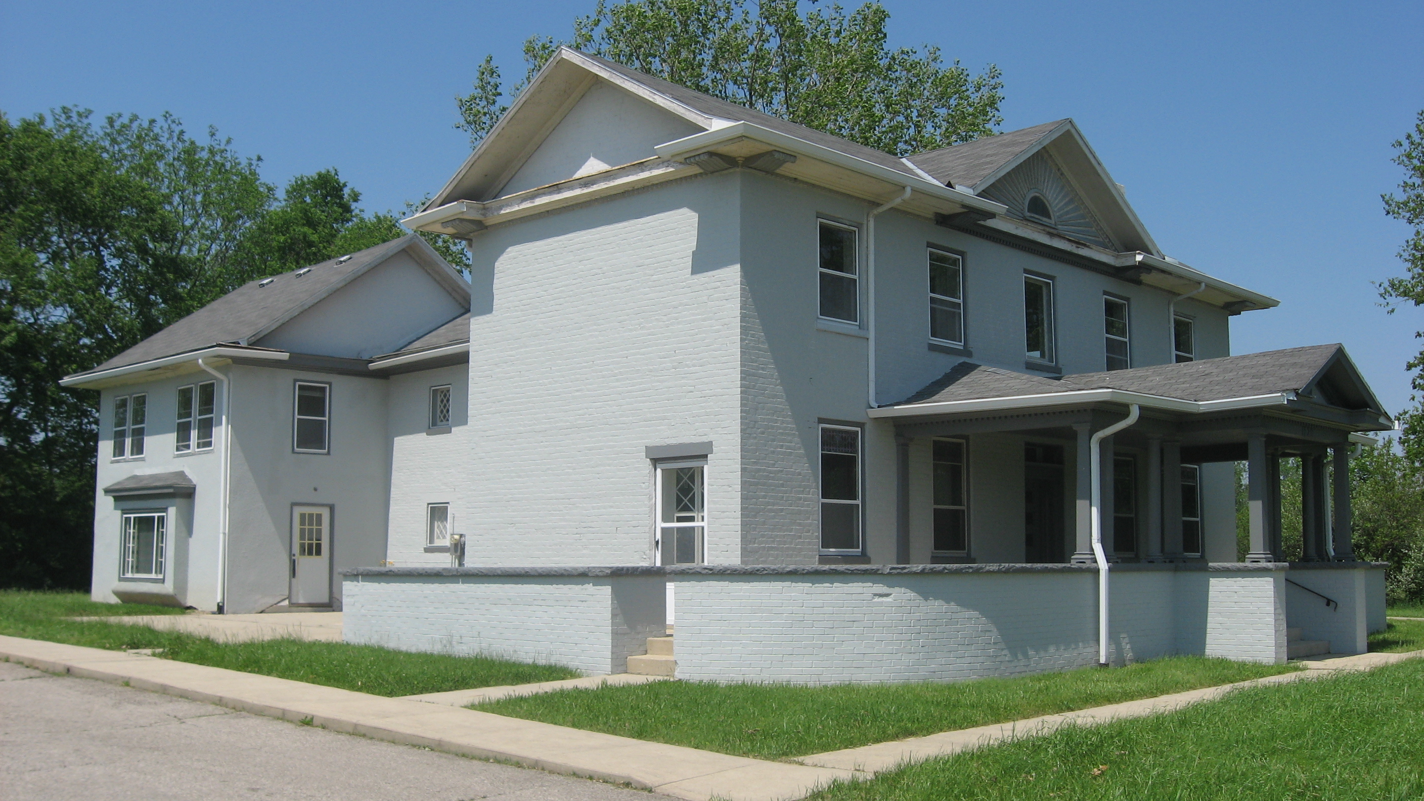 Front and western side of the Colonel Charles Young House, located along U.S. Route 42 between Xenia and Wilberforce in Xenia Township, Greene County, Ohio, United States. Built in 1864, it has been declared a National Historic Landmark.